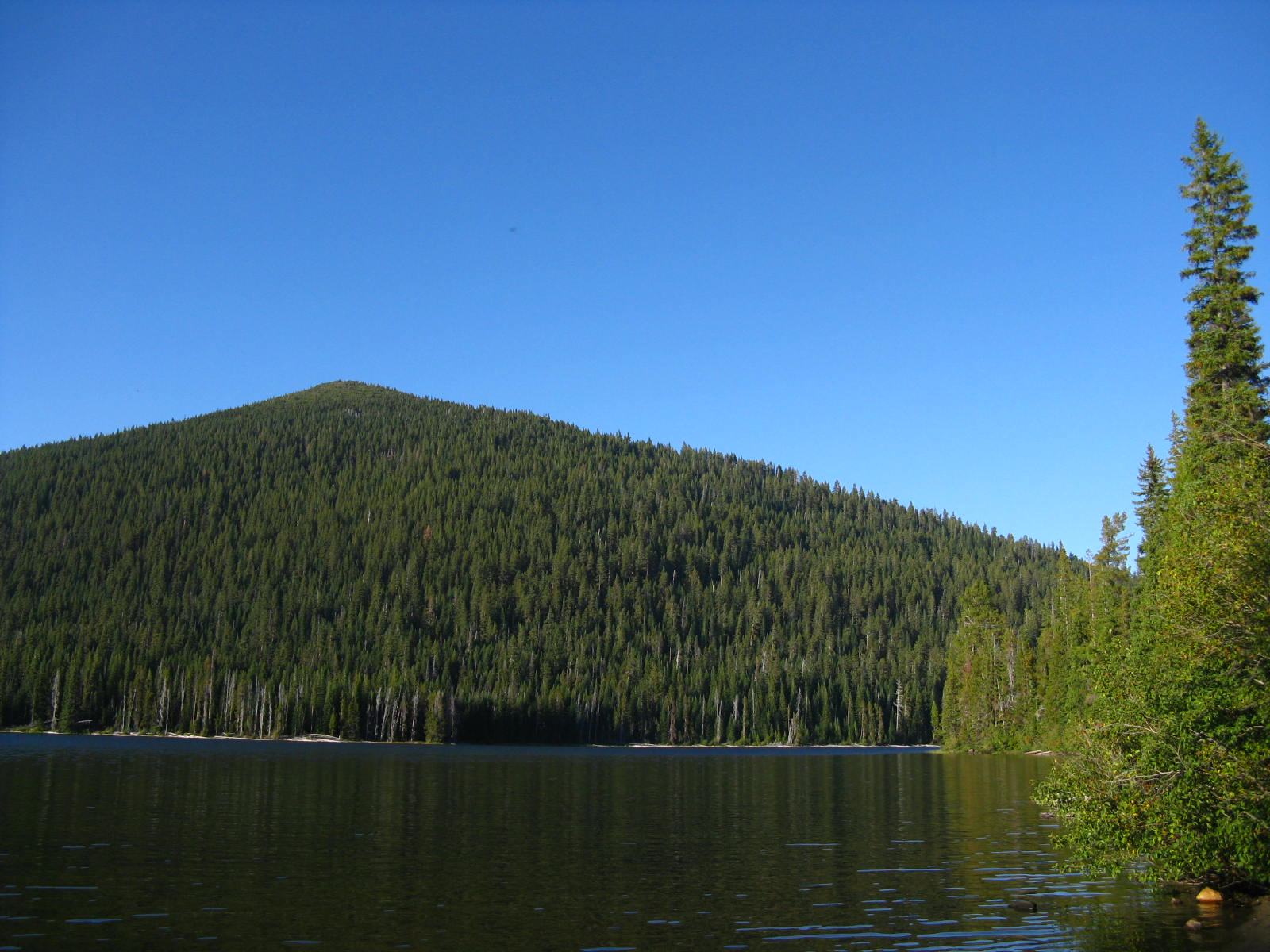 Taken from Little Cultus Lake.